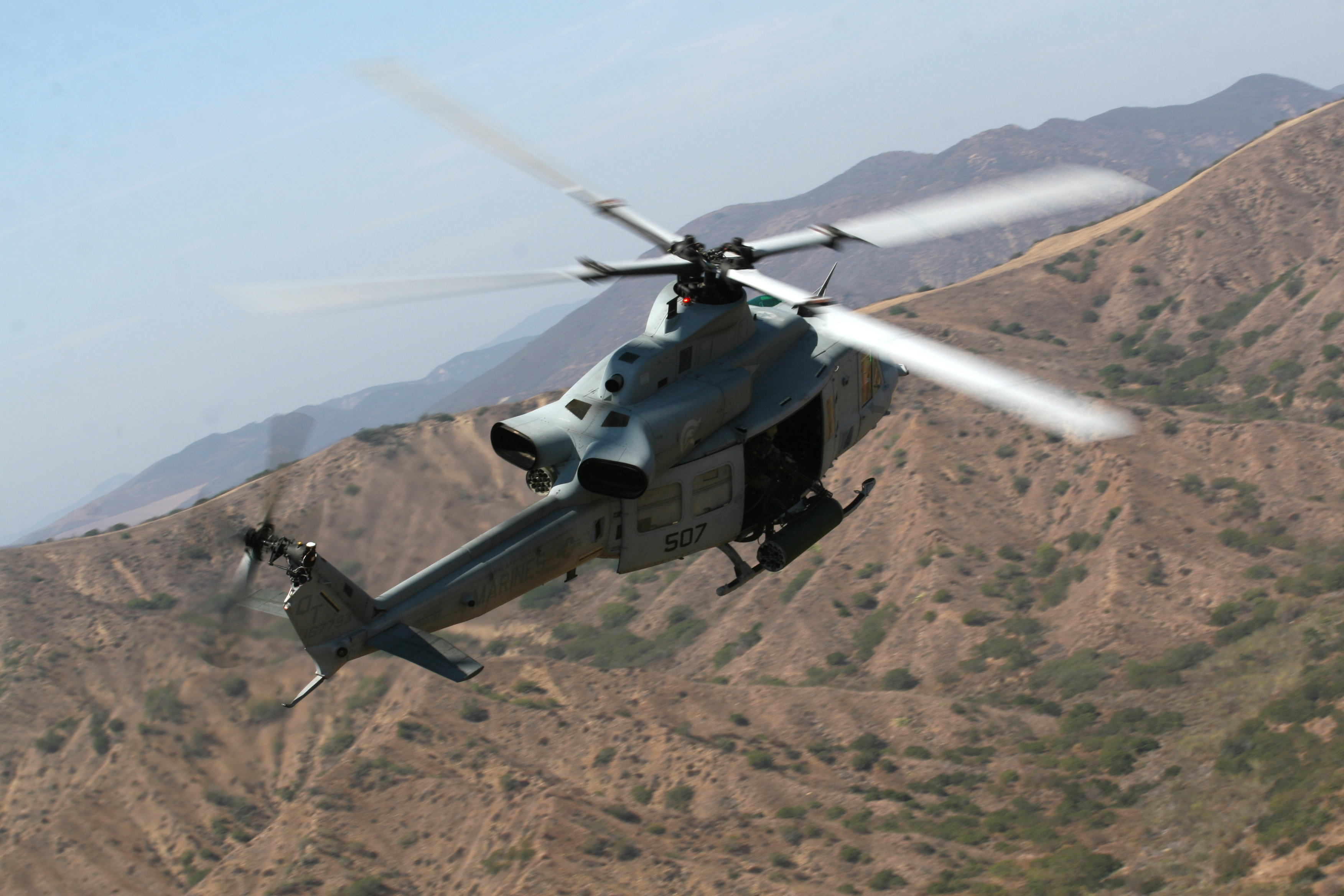 Pilots with Marine Light Attack Helicopter Training Squadron 303, Marine Aircraft Group 39, 3rd Marine Aircraft Wing, turn to make another pass over a target while conducting a gun shoot with a UH-1Y "Huey" belonging to the squadron, at Marine Corps Base Camp Pendleton Aug. 28. The new Huey is capable of carrying an interchangeable armament of the GAU-16 .50-caliber machine gun, M-240 medium machine gun, and GAU 17, 7.62 millimeter six barrel mini-gun. (U.S. Marine Corps photo by Lance Cpl. Christopher O'Quin) (Released)